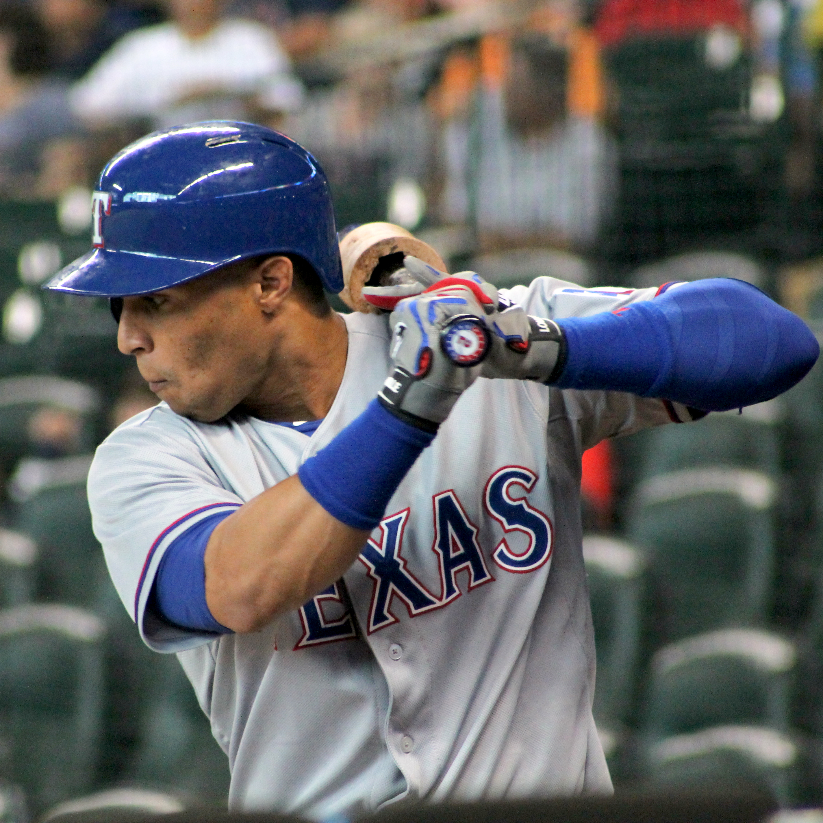 Professional baseball player Leonys Martín at Minute Maid Park in August 2014.